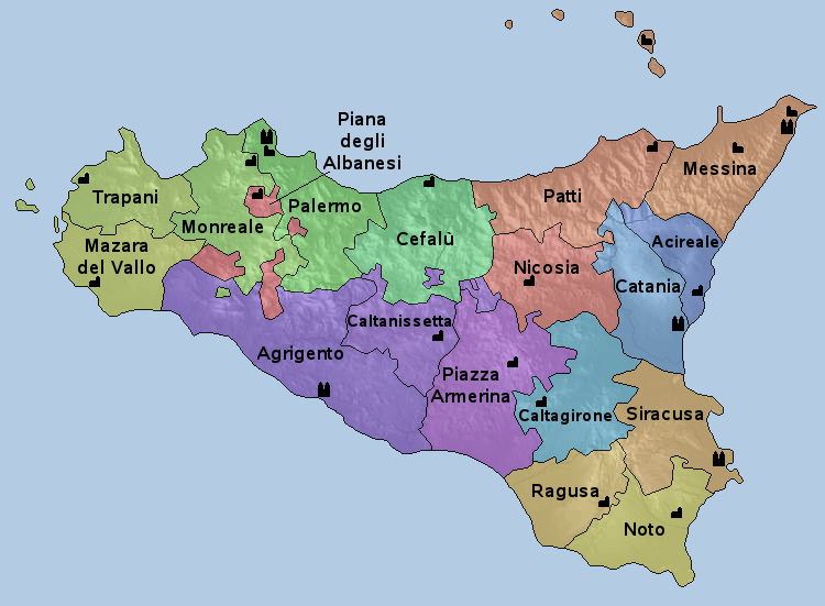 Map of the ecclesiastical region of Sicily (^^: Cathedral of a metropolitan diocese, –^: Cathedral of a suffragan diocese, ^–: Co-cathedral)